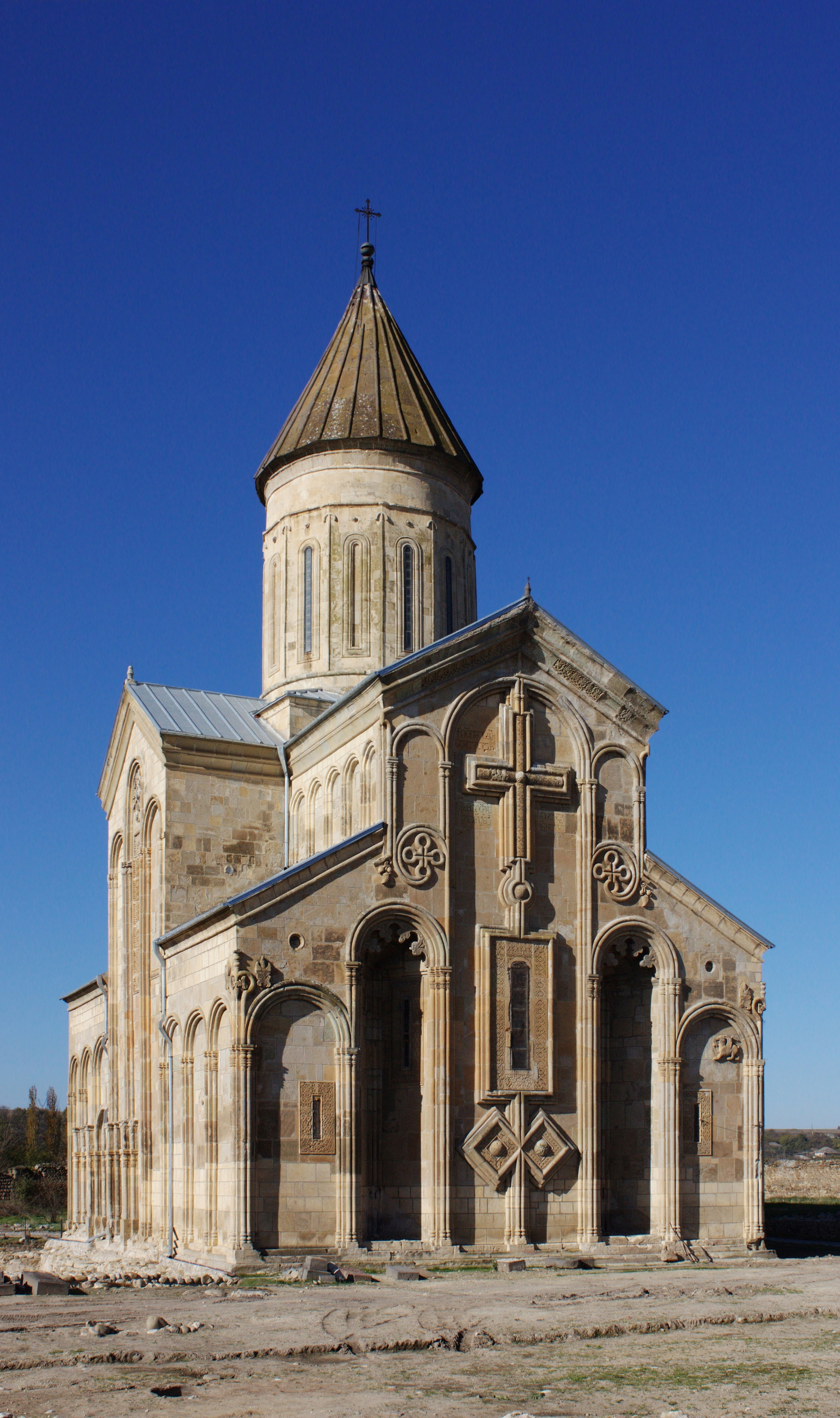 Samtavisi Cathedral — an 11th century Georgian Orthodox cathedral in the region of Shida Kartli, in eastern Georgia. The cathedral is now one of the centers of the Eparchy of Samtavisi and Gori of the Georgian Orthodox Church. The cathedral is located on the left bank of the Lekhura River, some 11km of the town of Kaspi. According to a Georgian tradition, the first monastery on this place was founded by the Assyrian missionary Isidore in 572 and later rebuilt in the 10th century. Neither of these buildings has survived however. The earliest extant structures date to the eleventh century, the main edifice being built in 1030 as revealed by a now lost stone inscription. The cathedral was built by a local bishop and a skilful architect Hilarion who also designed the nearby church of Ashuriani. The Cathedral was partially reconstructed in the 15th and 19th centuries, after being heavily damaged by earthquakes. The masterly decorated eastern façade is the only part of the original building that has survived.